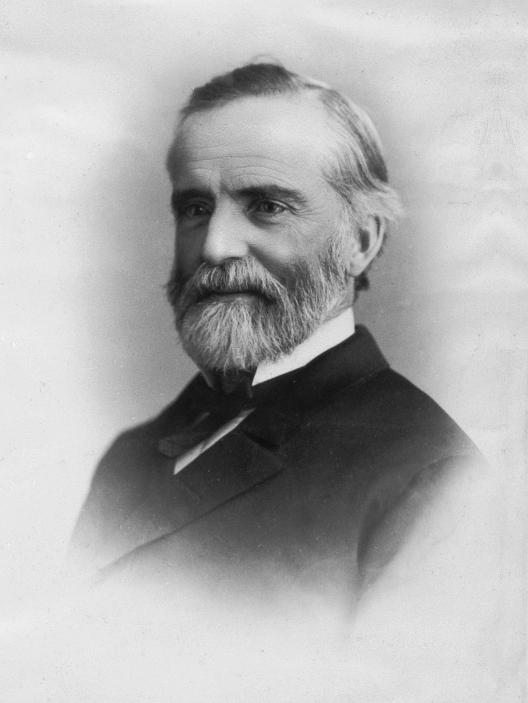 Photograph: Jaques Grenier, Montreal, QC, 1881, by Notman & Sandham. Silver salts on paper mounted on paper, Albumen process, 15 x 10 cm